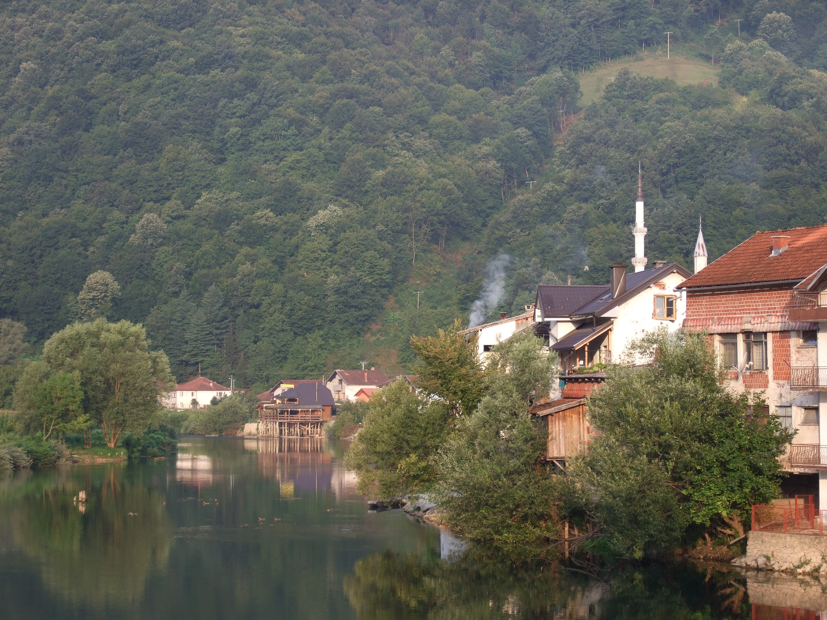 Bosanska Otoka - houses at river Una